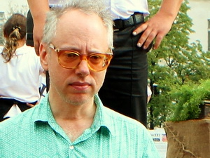 Odessa International Film Festival / Todd Solonds